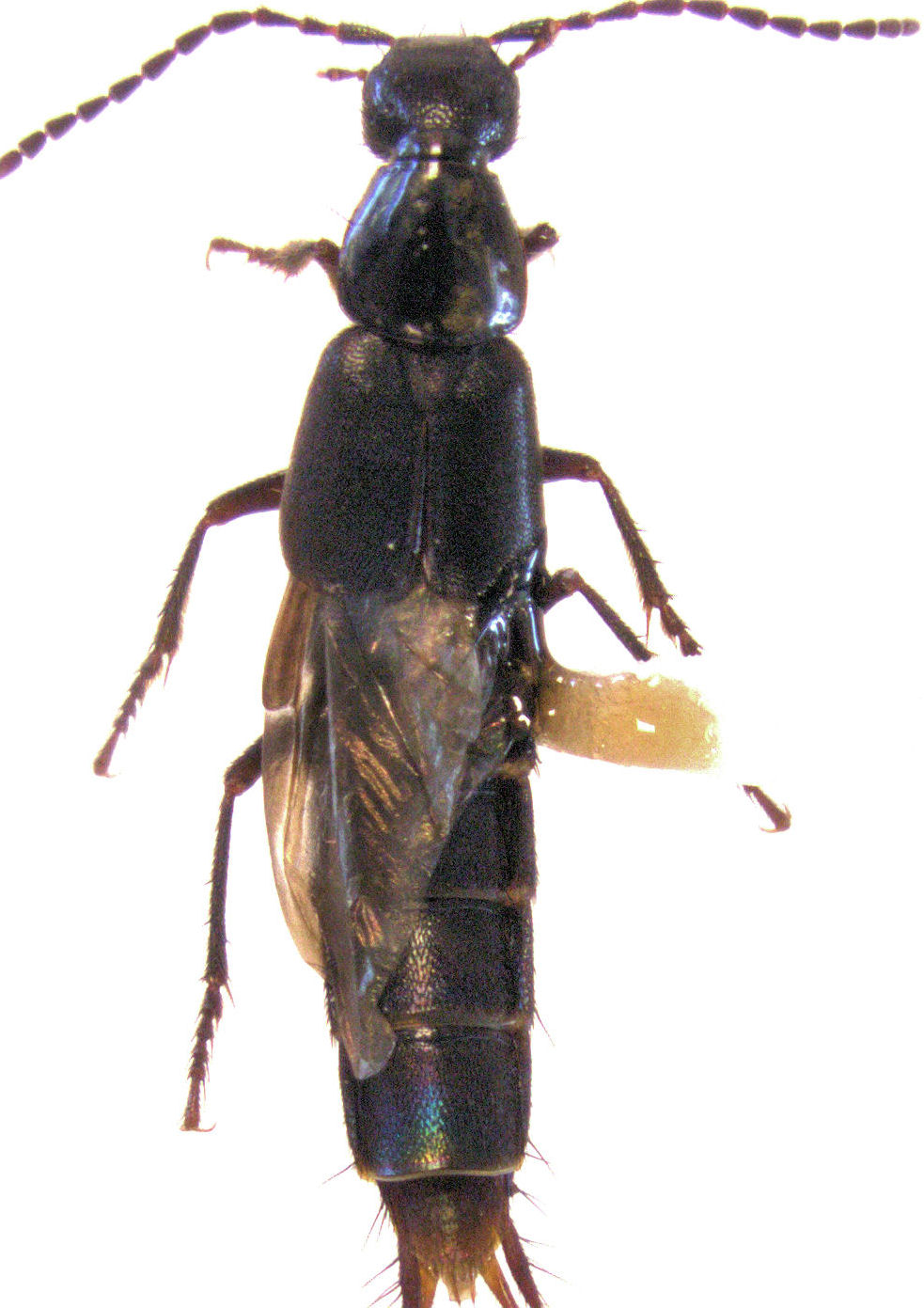 adult Quediocafus insolitus, length about 10 mm